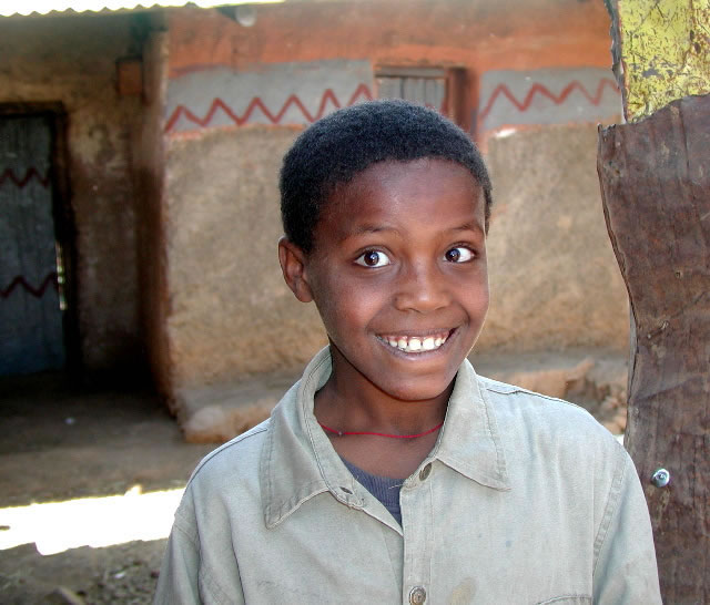 Youngster in Lalibela, northern Ethiopia, in front of outdoors decorated house wall. Photographer's caption: The kids loved seeing there photos on the back of the digital camera. This is the second one I took of this boy. In the first one, his eyes were shut. So on this one I said told him to open his eyes. He obeyed with enthusiasm :-)